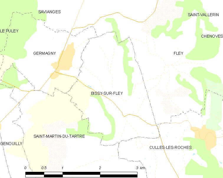 Map of French municipality